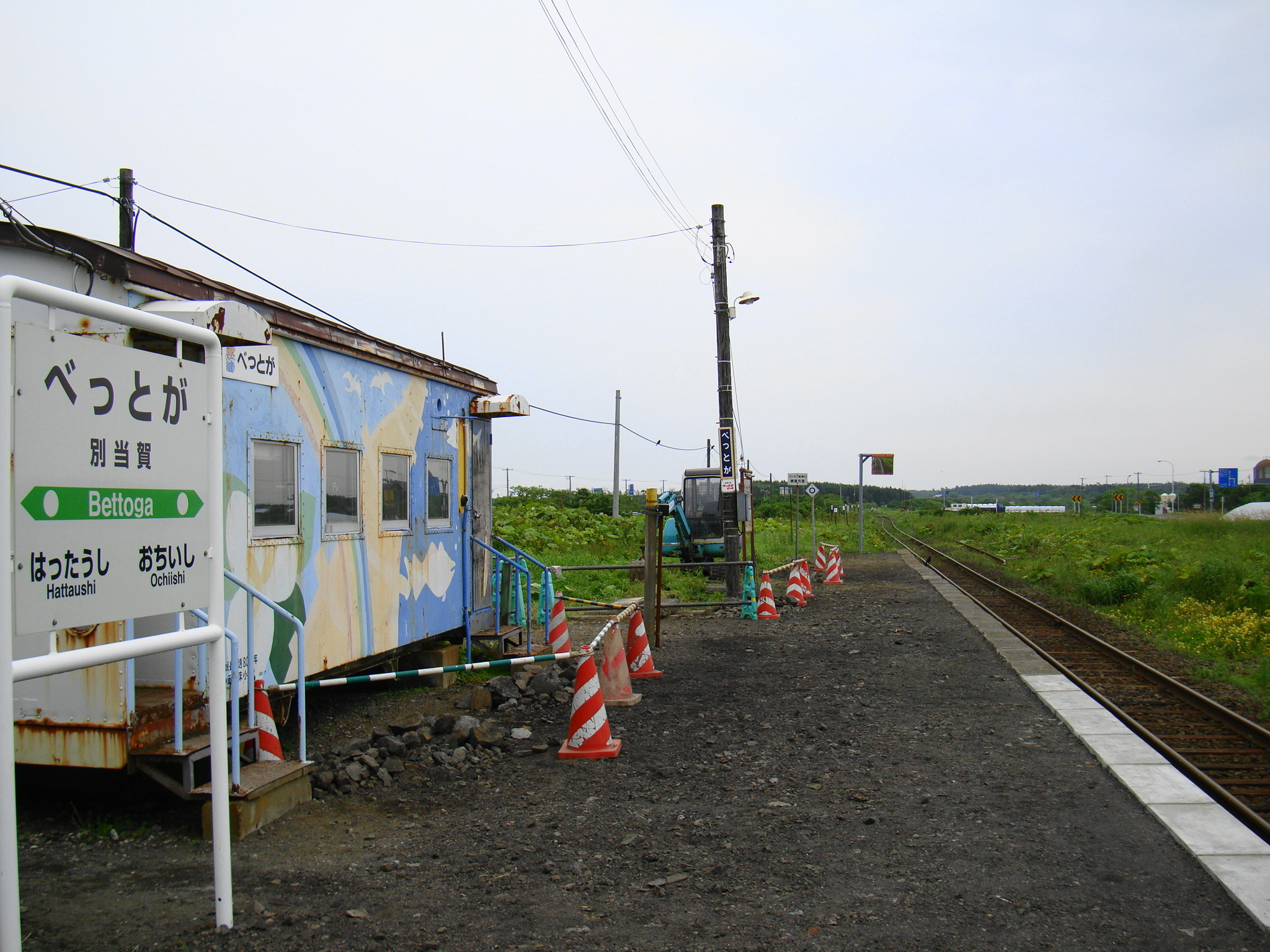 Bettoga Station